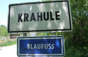 Krahule in Slovakia.